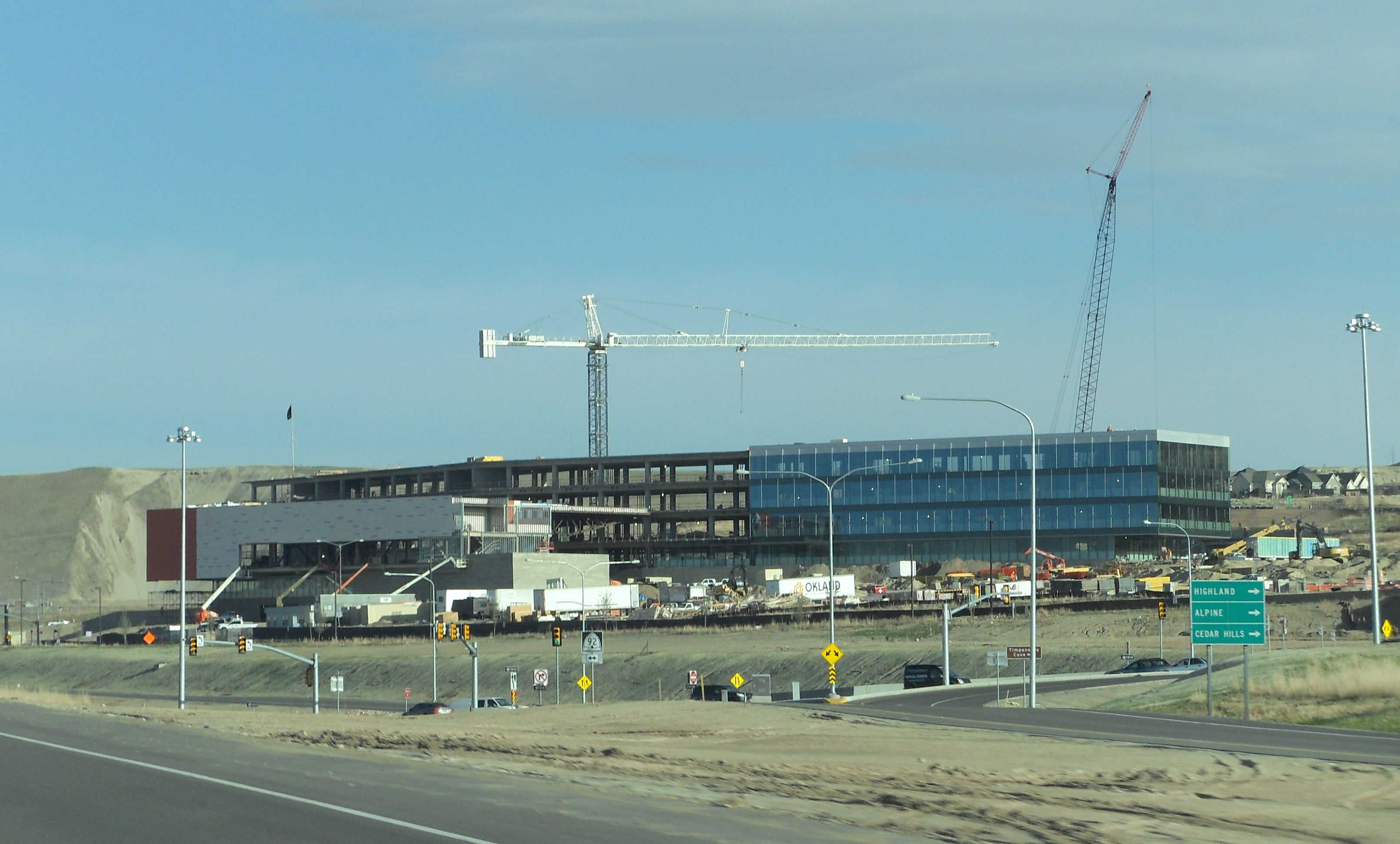 The Adobe Systems Utah Campus in Lehi, Utah as seen from Interstate 15. The building was being constructed at the time of the photo.